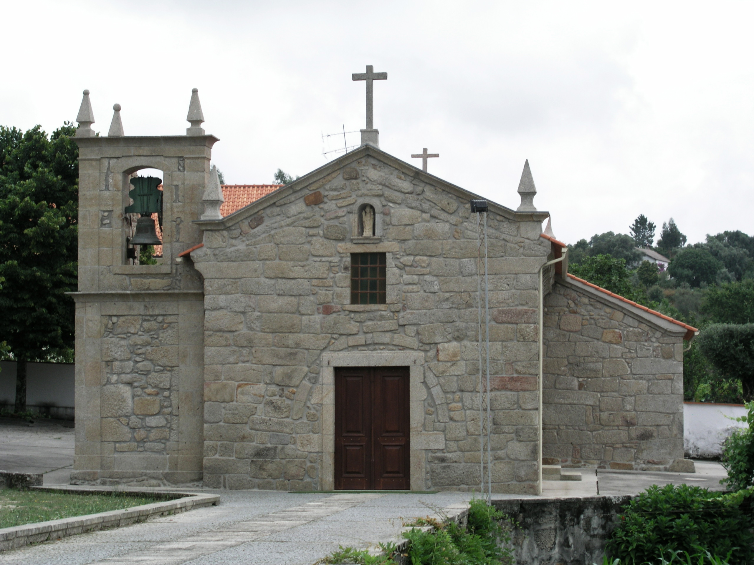 Romanic church of Friastelas, Ponte de Lima, Portugal